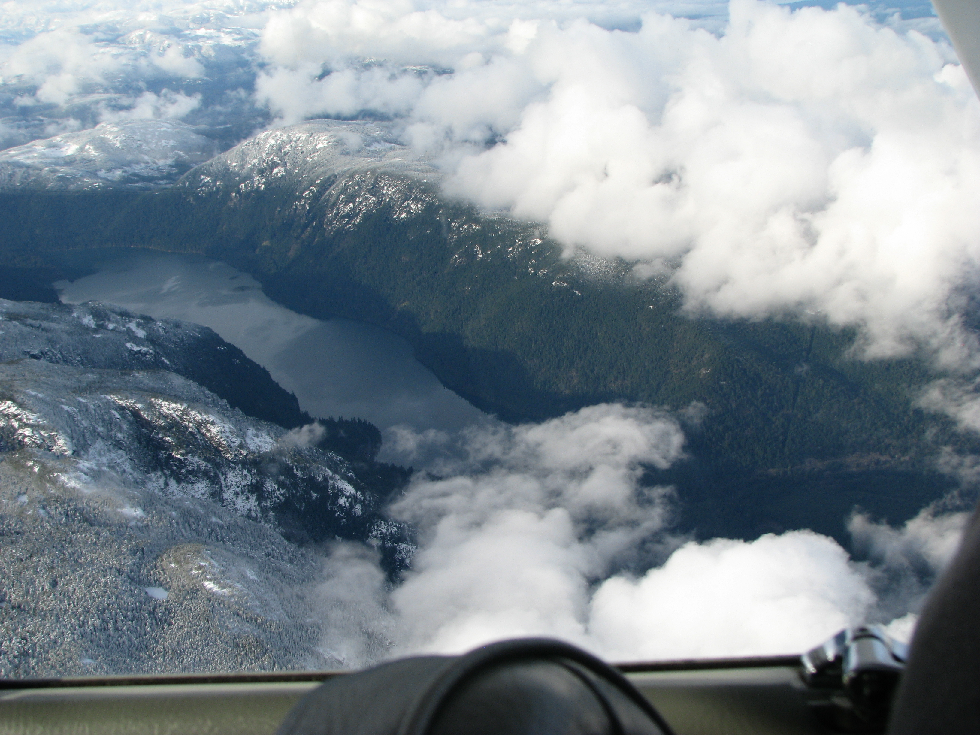 Aerial image of Cameron Lake British Columbia. This lake, on Vancouver Island, is named after British Columbia's first judge.